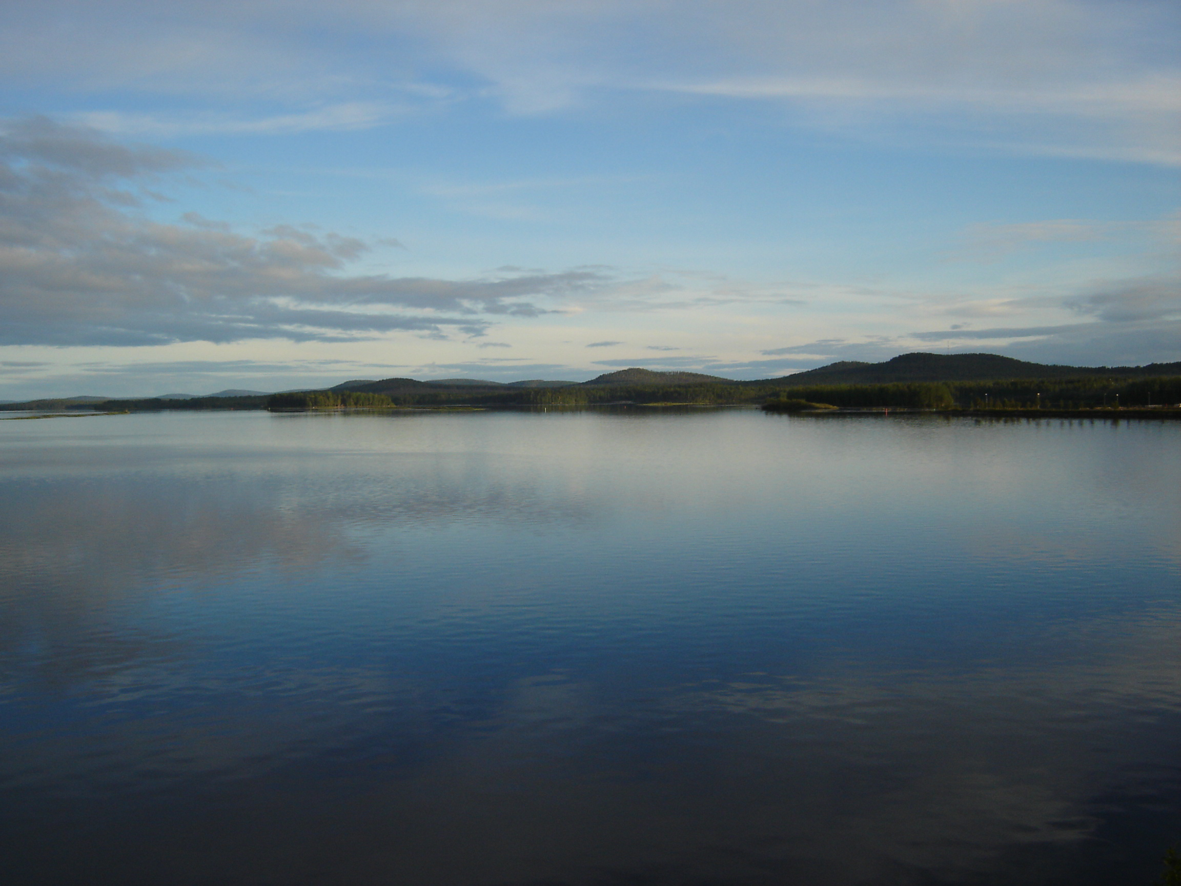 Lake Kemijärvi